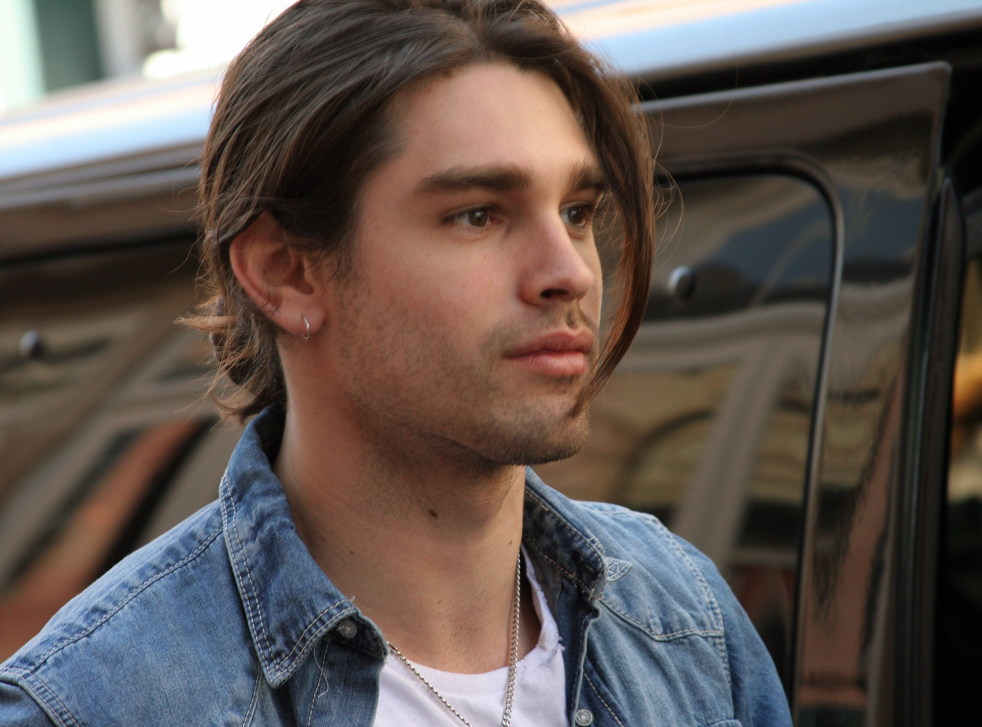 Photo of Justin Gaston, former Nashville Star contestant, "If I Can Dream" cast member, American Idol performer, and Miley Cyrus's ex-boyfriend, in the French Quarter of New Orleans, Louisiana on February 20, 2010.